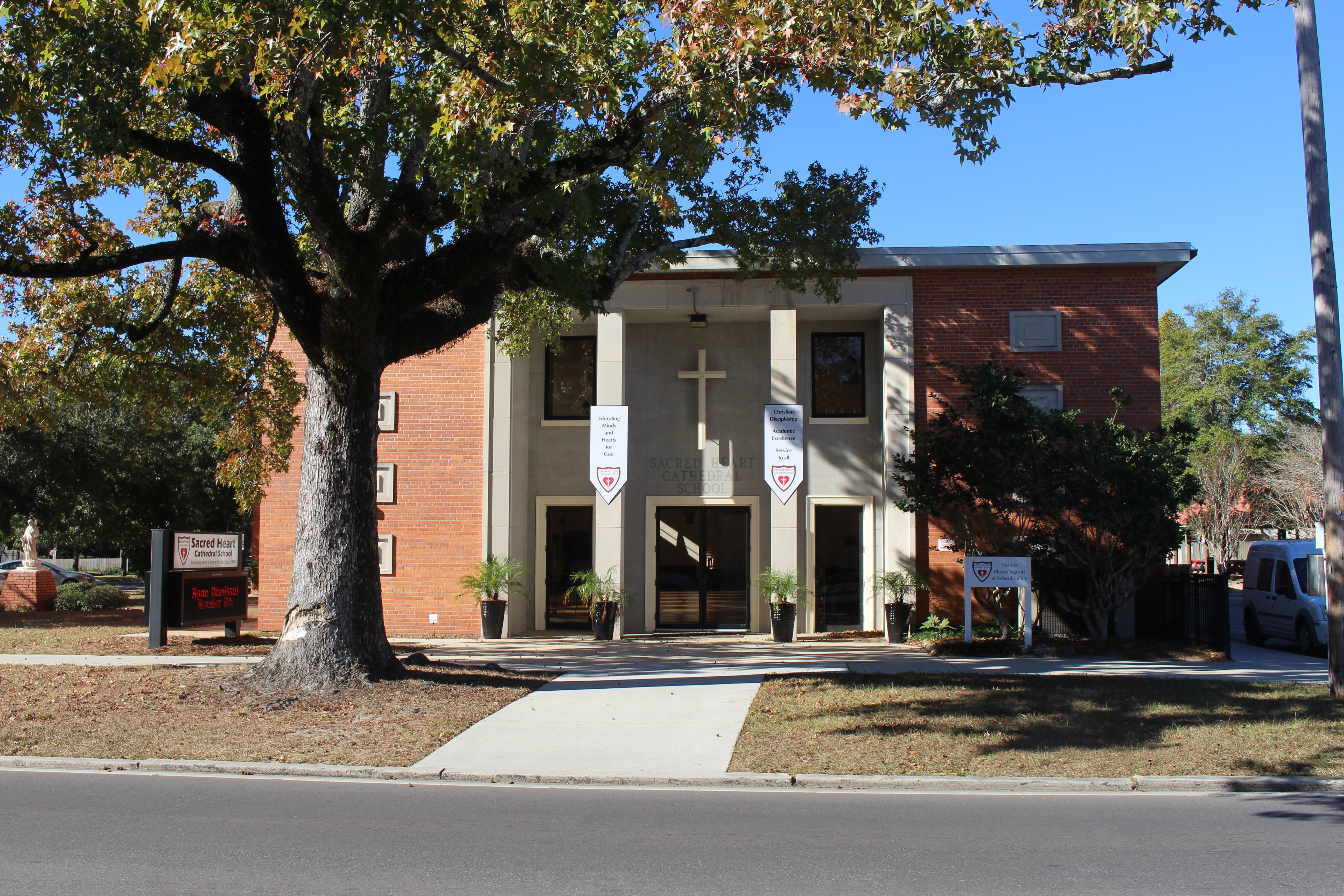 Sacred Heart Cathedral School, Pensacola, Escambia County, Florida